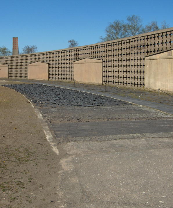 The testing track for military boots in Sachsenhausen concentration camp. Prisoners assigned to the "Schuhläuferkommando", or shoe-running unit, had to march back and forth on this track for days on end, essentially until their death. Pink triangle (homosexual) prisoners were assigned to this particular unit in great numbers.